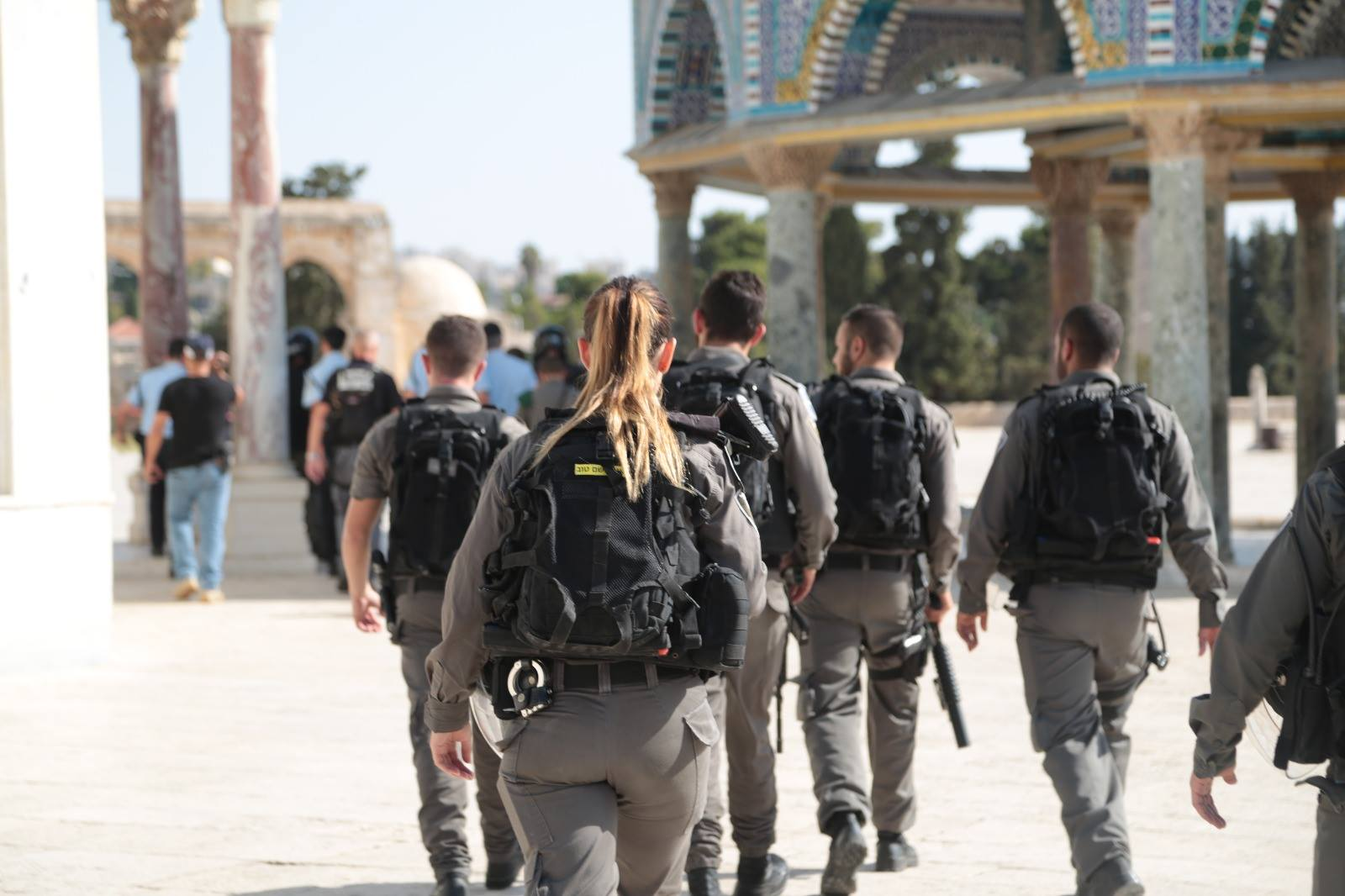 Israeli police officers at the Temple Mount, after the 14 July 2017 terrorist attack